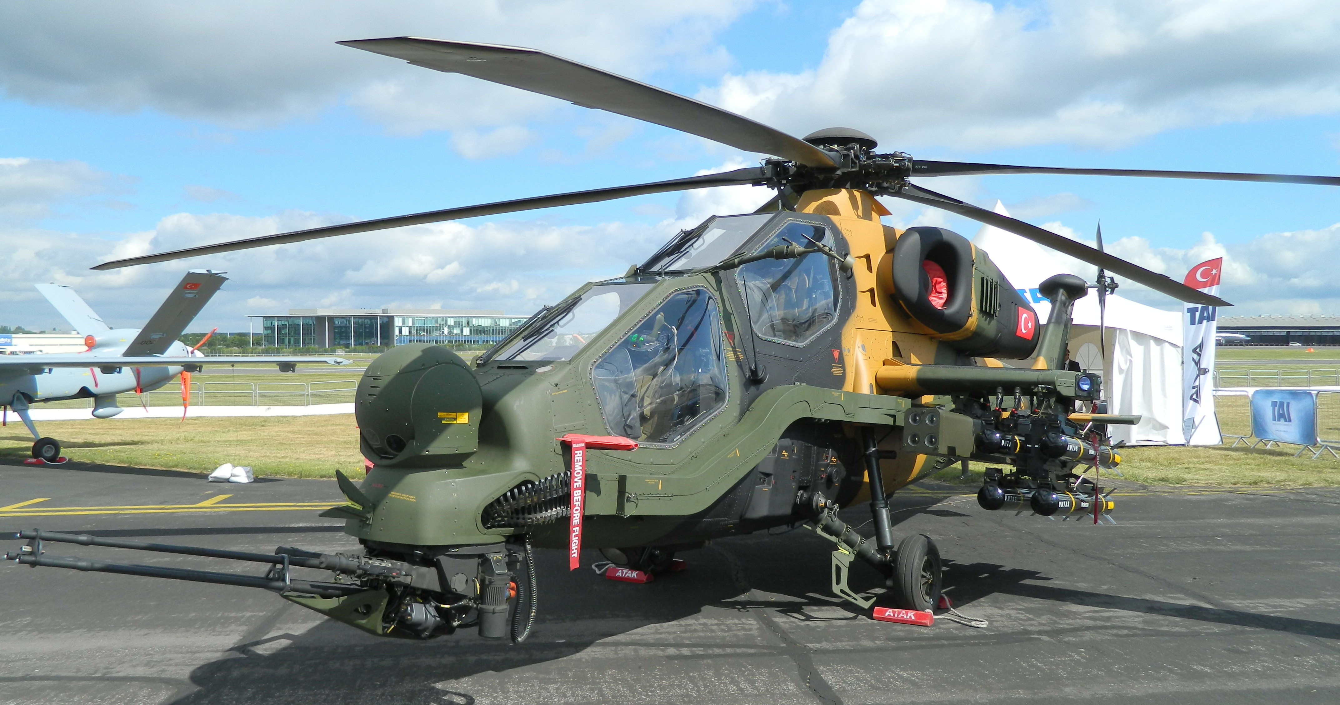 TAI T129 Attack Helicopter "1001" on display at the 2014 Farnborough Air Display